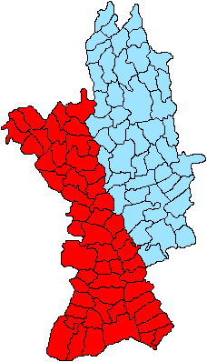 Map of Olt County, Romania.